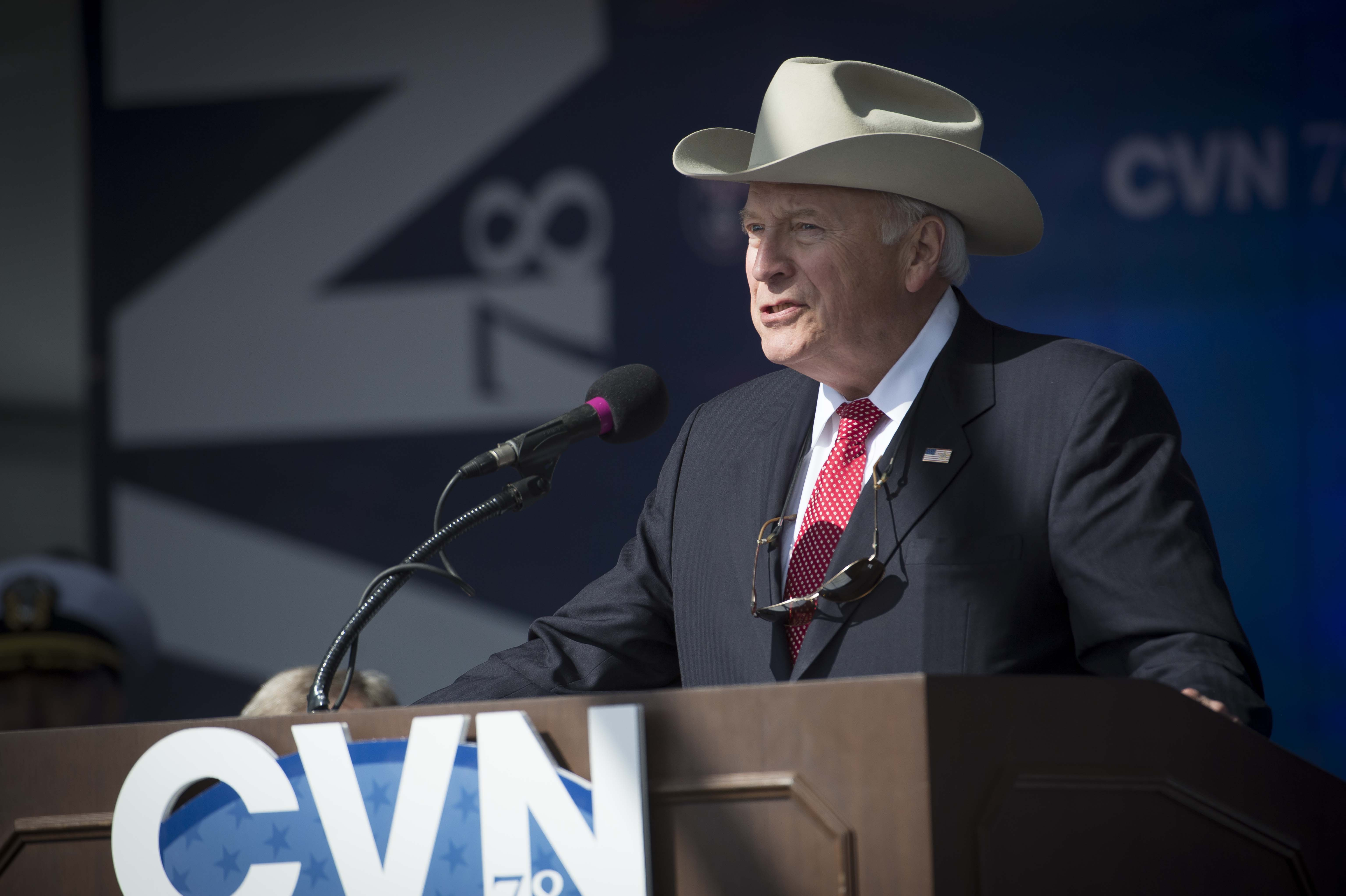 Former Vice President Dick Cheney speaks at the christening ceremony of the aircraft carrier USS Gerald R. Ford (CVN 78) Nov. 9, 2013, at Newport News Shipbuilding in Newport News, Va. The Gerald R. Ford was the first Ford-class aircraft carrier to join the fleet in 2016.